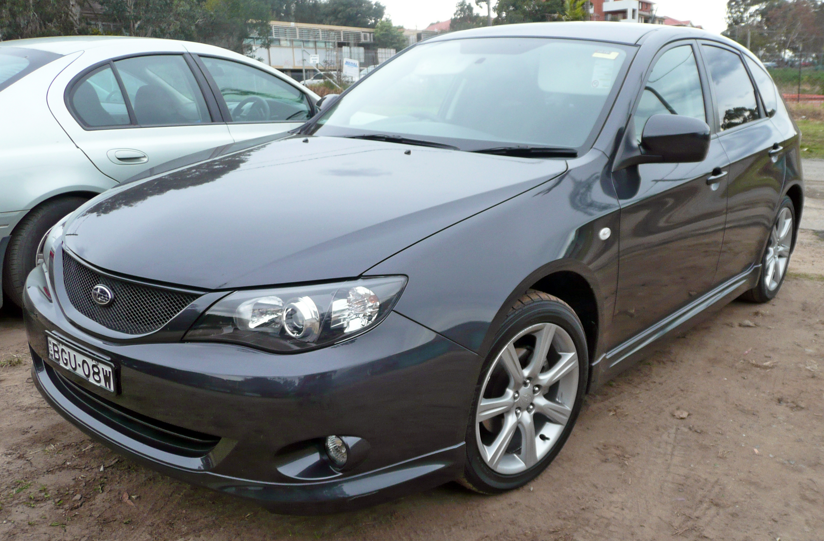 2008 Subaru Impreza (GH7 MY08) RS hatchback. Photographed in Sutherland, New South Wales, Australia.